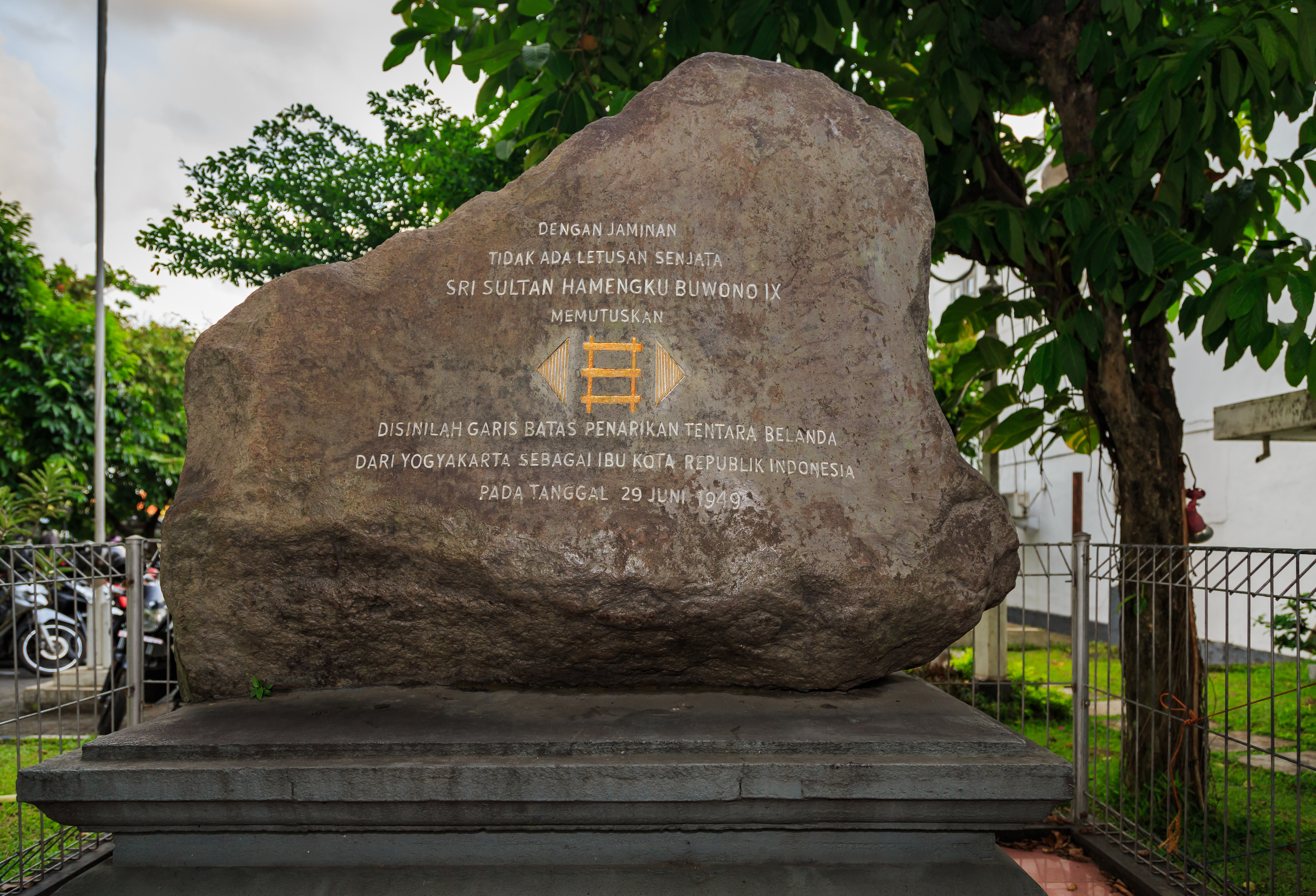 Yogyakarta, Indonesia: Marker stone of the demarkation line of June 29, 1949. On pressure of UN, the dutch troops had to clear Yogyakarta during the General Offensive of 1 March 1949. The inscriptions reads: With the guarantee of no gunfire Sri Sultan Hamengkubuwono IX decides: This is the boundary lines of the Dutch troop withdrawal from the capital of Republik of Indonesia given on June 29 1949